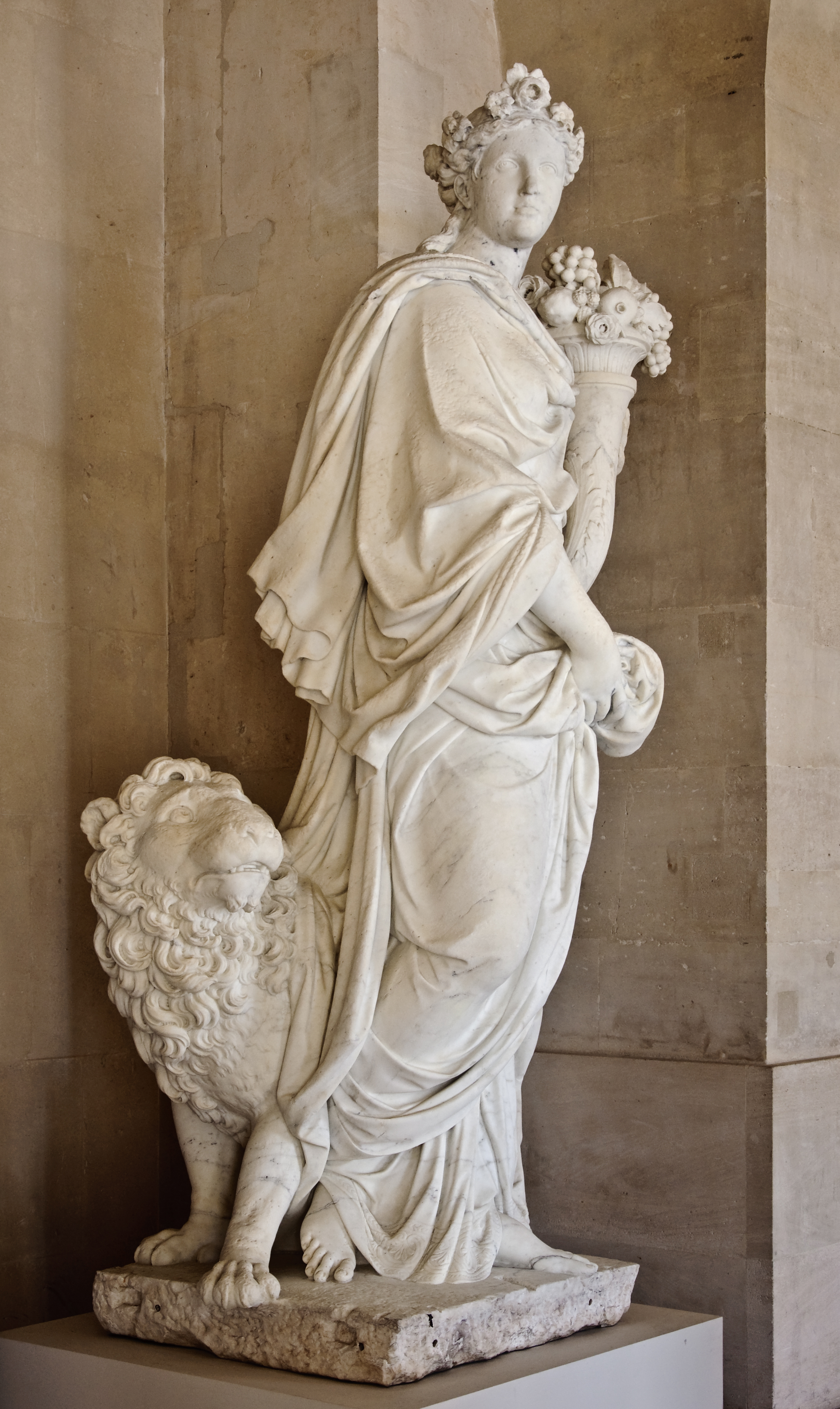 Part of the series The Four Elements, part of the Grande Commande.